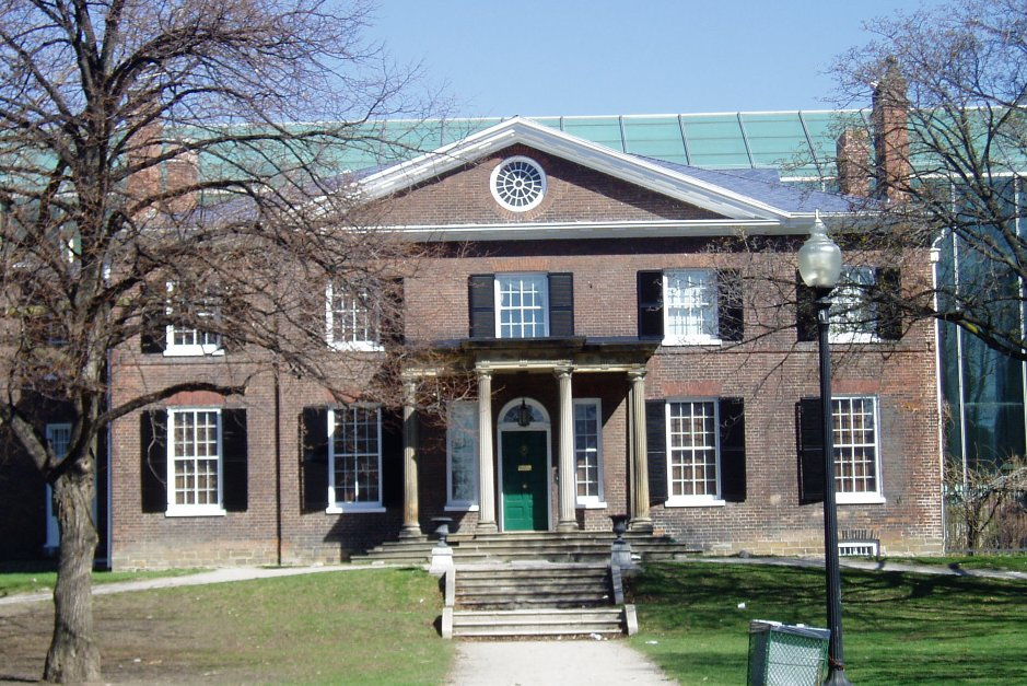 Taken by SimonP in May 2005